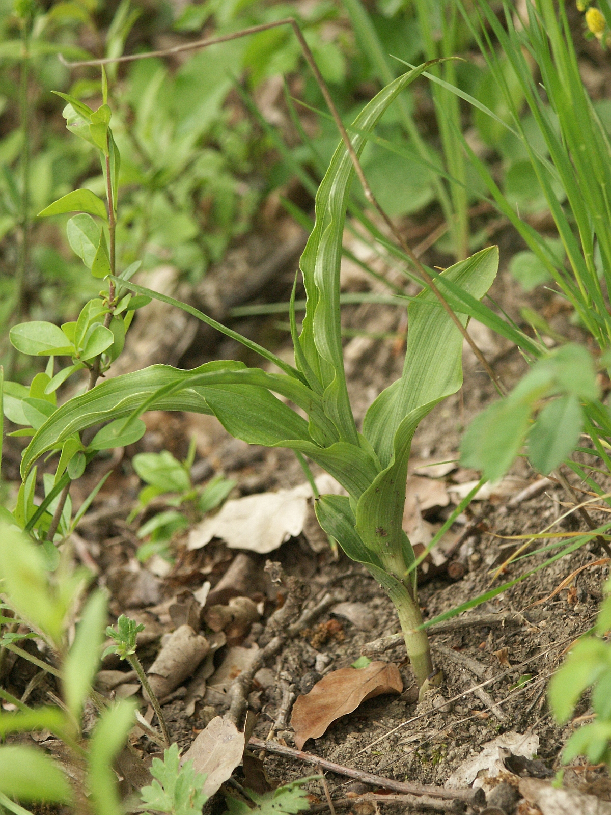 Epipactis muelleri, Hohenlohe, Germany